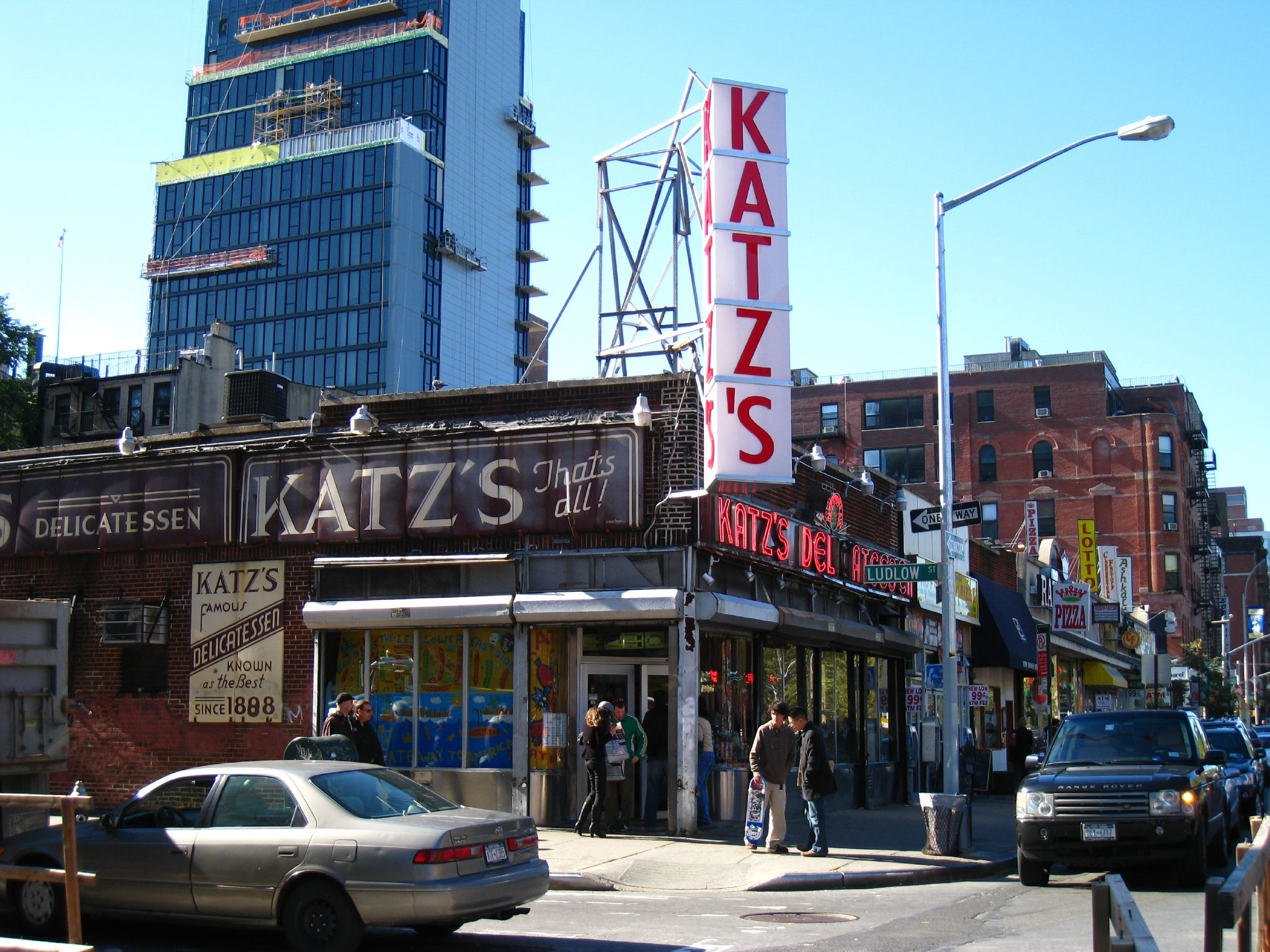 Katz's Delicatessen.